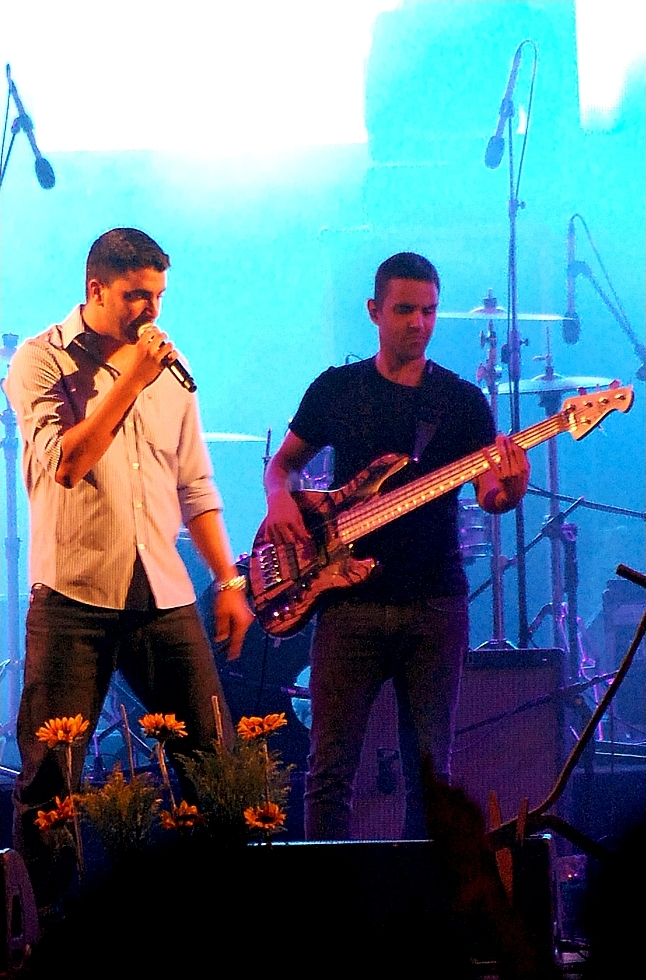 Moshe Peretz during a performance in Jerusalem.